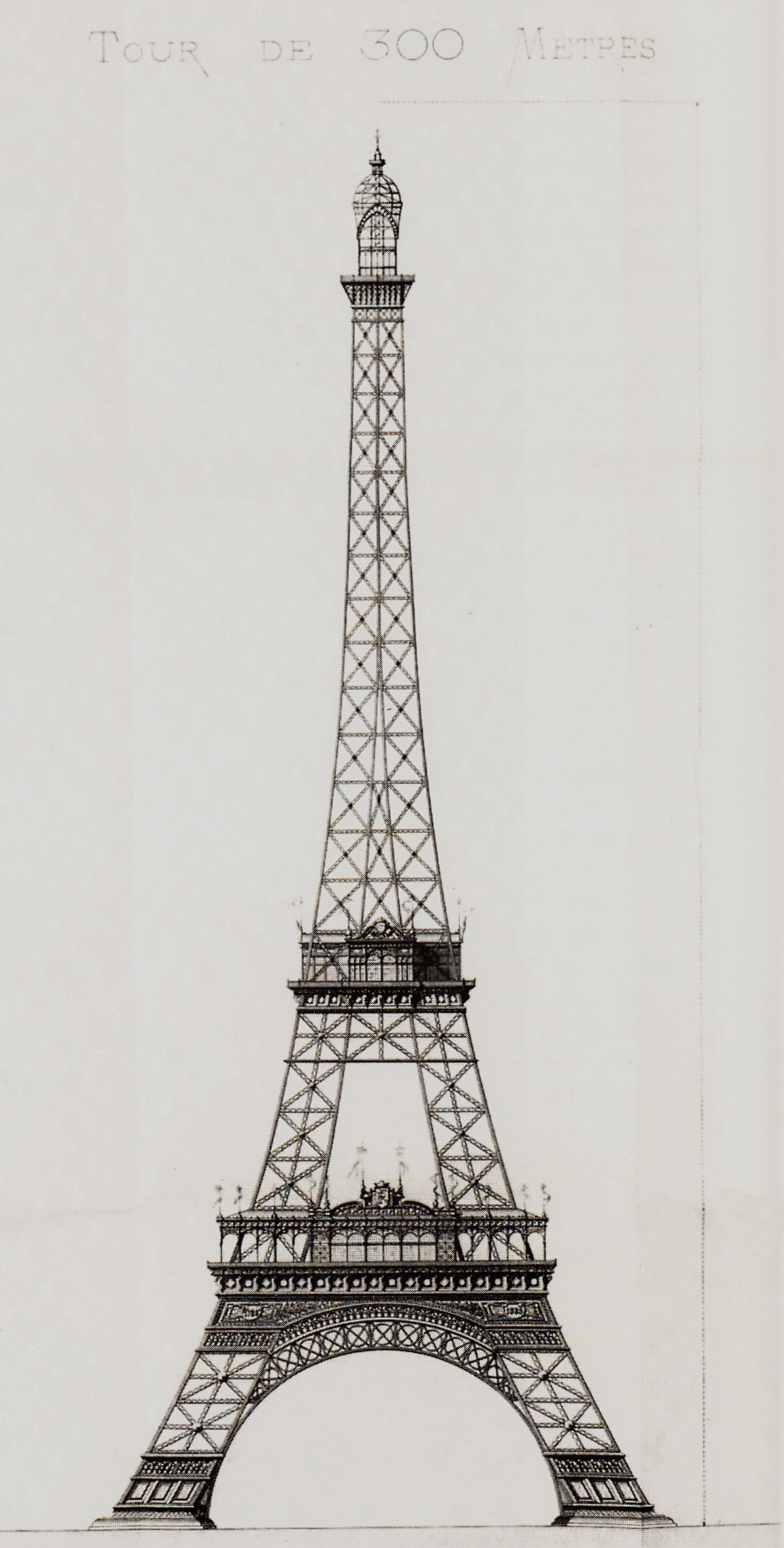 Project drawing of Eiffel Tower for competition (1887) of Stephen Sauvestre